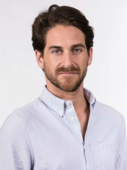 Gonzalo Rodolfo Winter Etcheberry en la fotografía oficial de diputados periodo 2018-2022. (Fotos: Christel Andler, René Lescornez, Johanna Zárate)